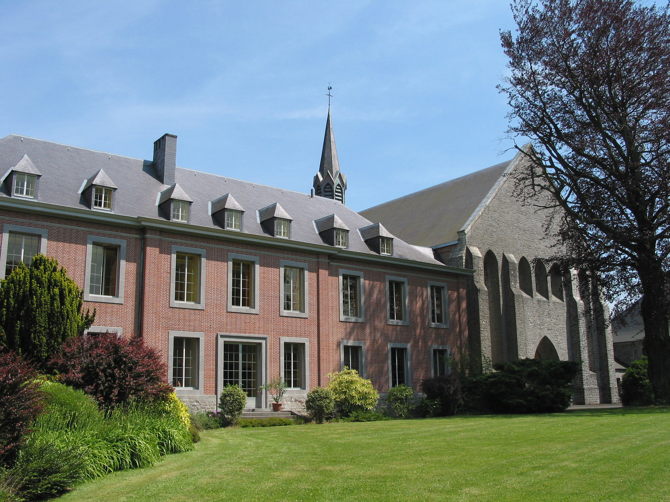 Forges (Chimay) (Belgium), garden, left wing of the abbey and abbey church of Scourmont.